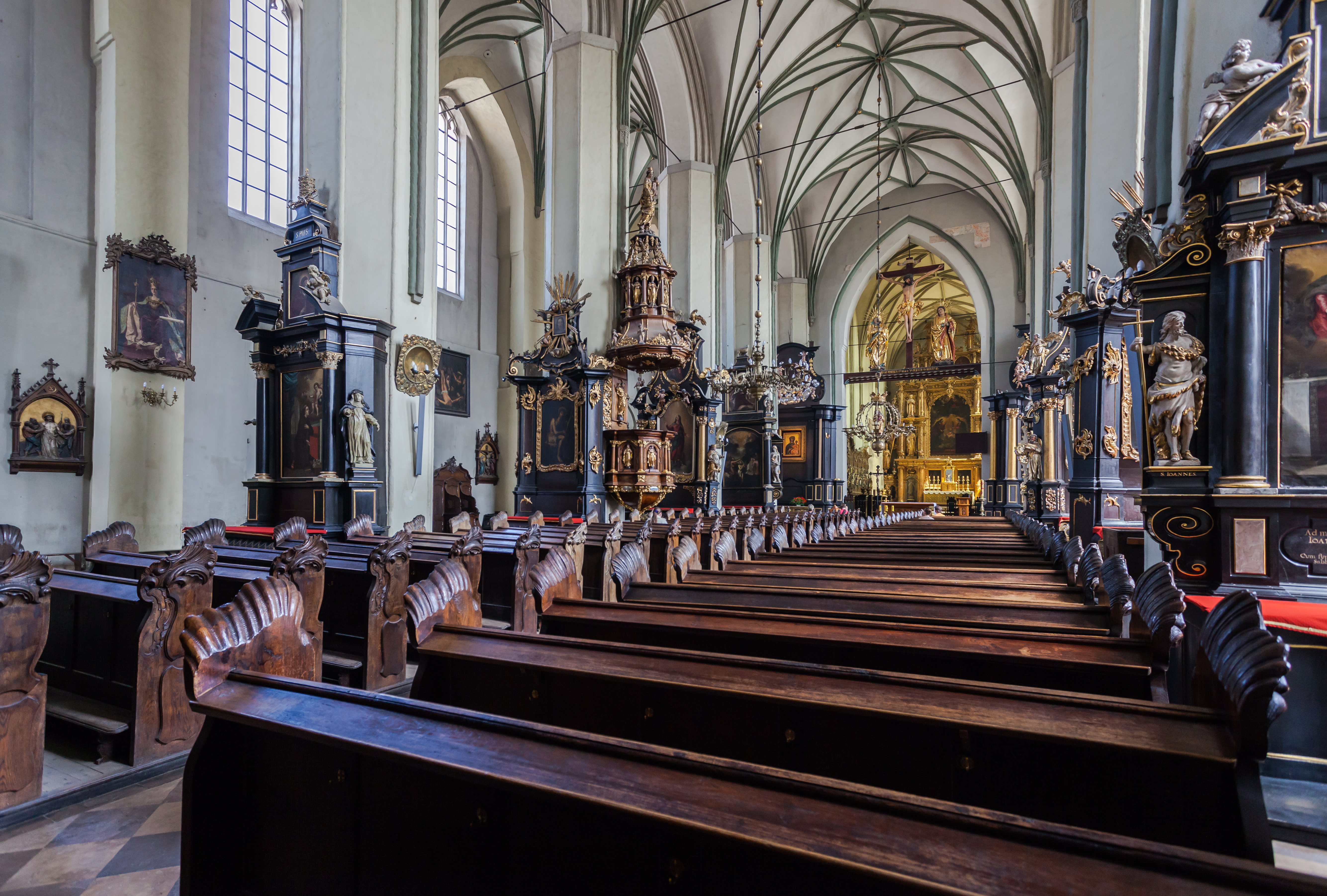 St. Nicholas church, Gdansk, Poland